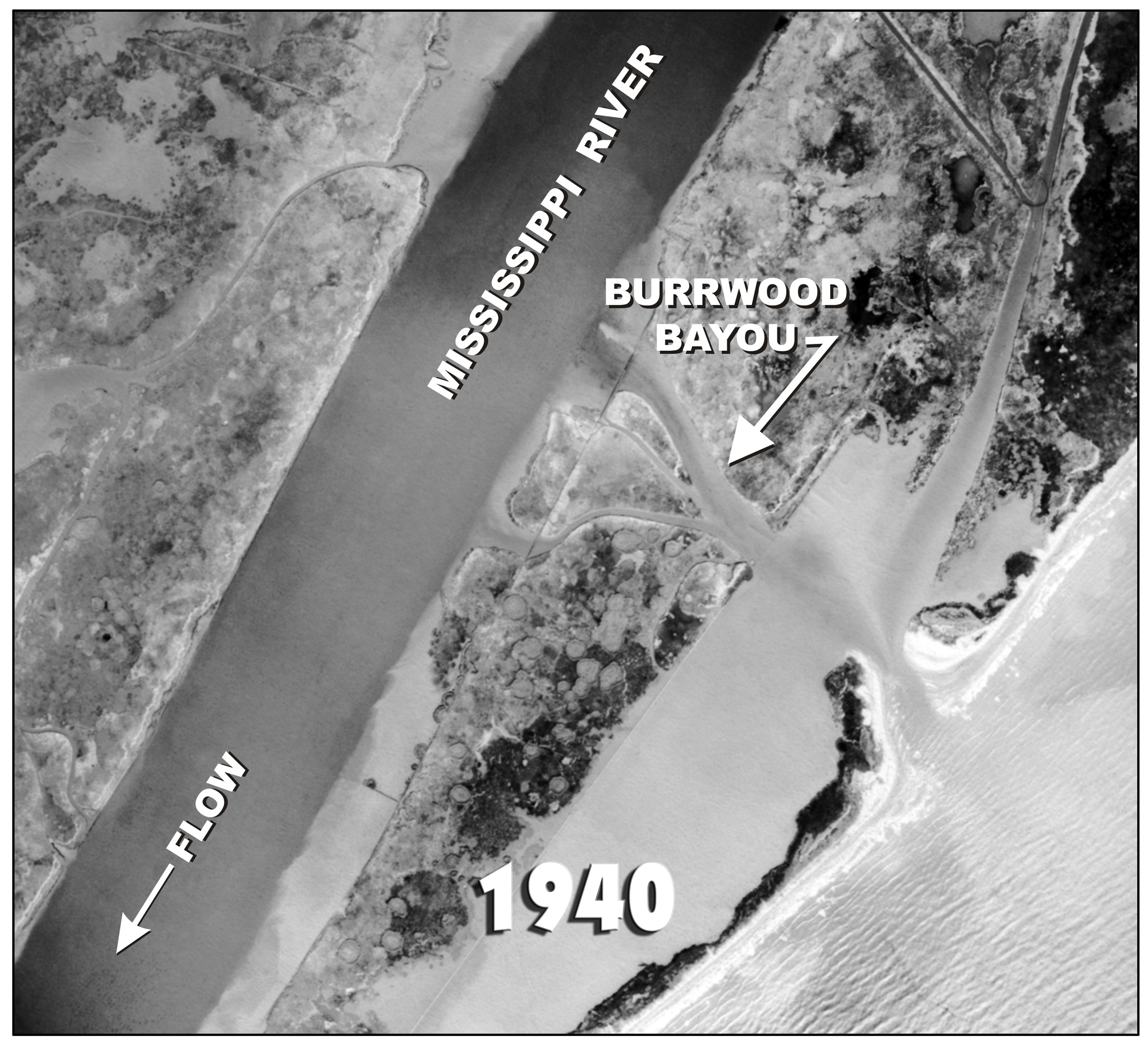 Air view of Burrwood Bayou area, Plaquemines Parish, Louisiana, with the Bayou, Mississippi River, and direction of flow labeled. 1940